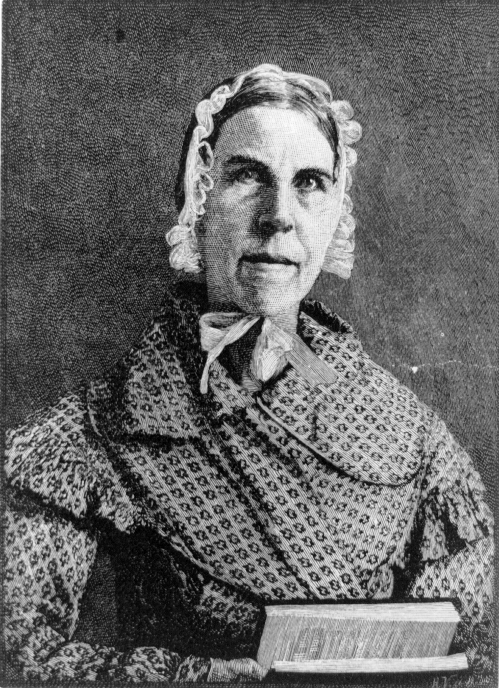 Wood engraving of Sarah Moore Grimké